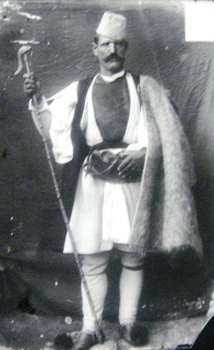 Vlach shepherd in folklore costume. This image was used by a company in the US to advertise cheese. (Avdella, 1899) This media file is produced by Wikipedian in Residence in Category:Wikipedian in Residence at DARM in 2016.